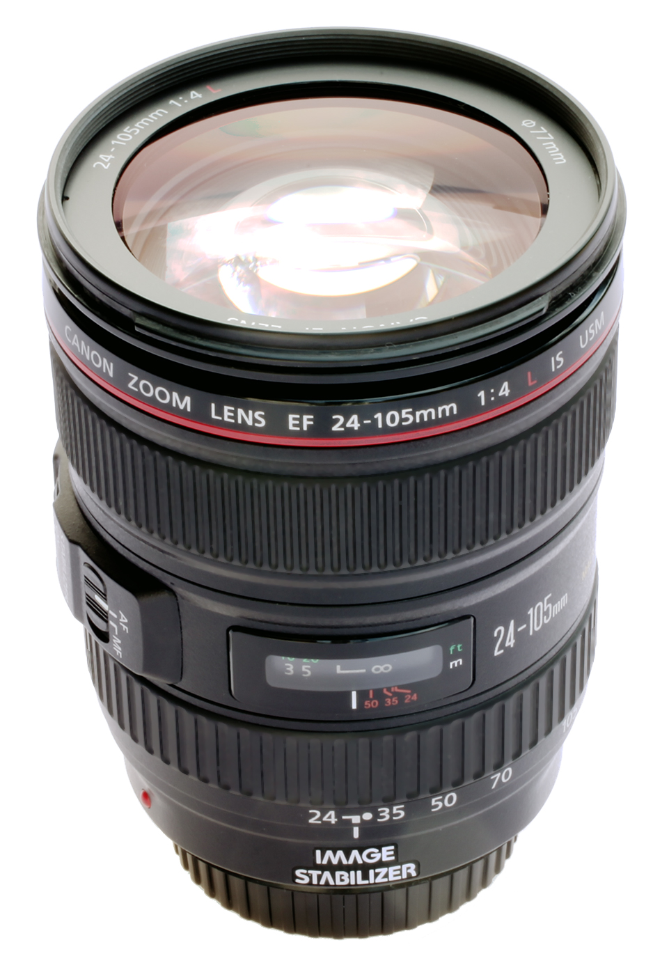 Canon 24-105 f4 L IS USM lens shown upright without filter, lens cap or hood, similar to the 17-40 f4L image used in en.wikipedia